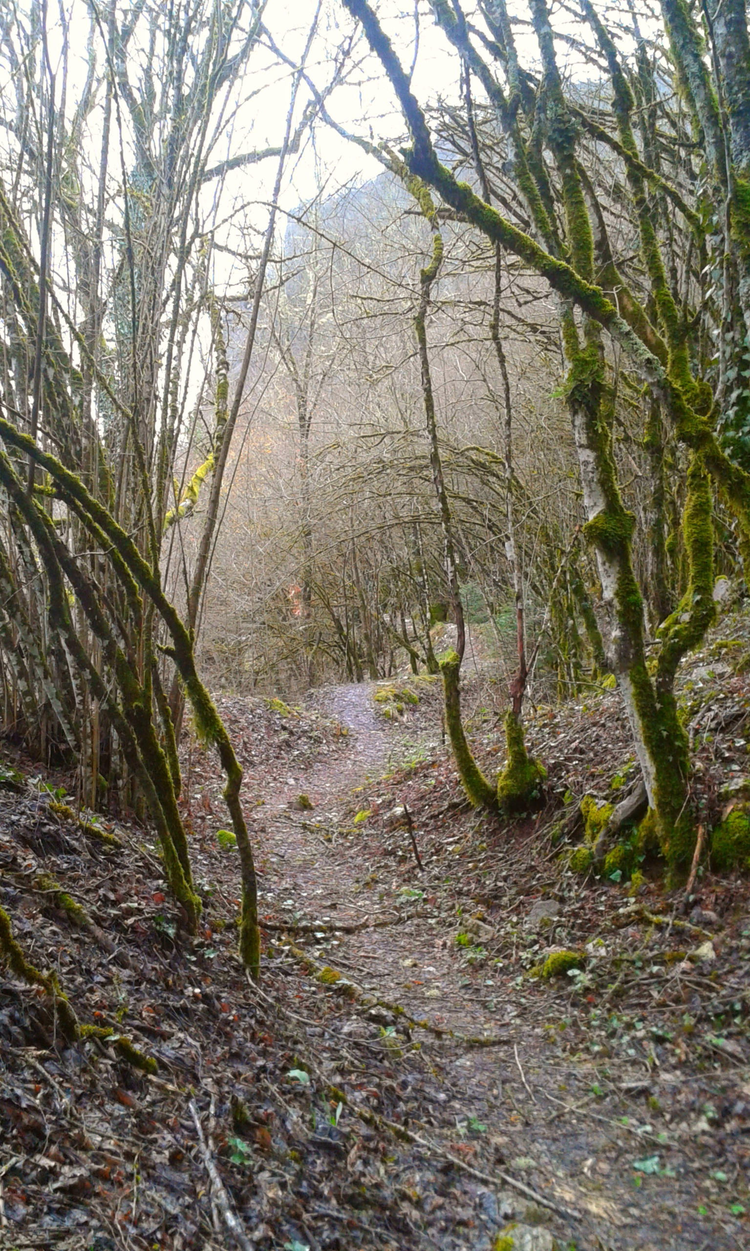 This is a photography of Natura 2000 protected area with ID GR2130004